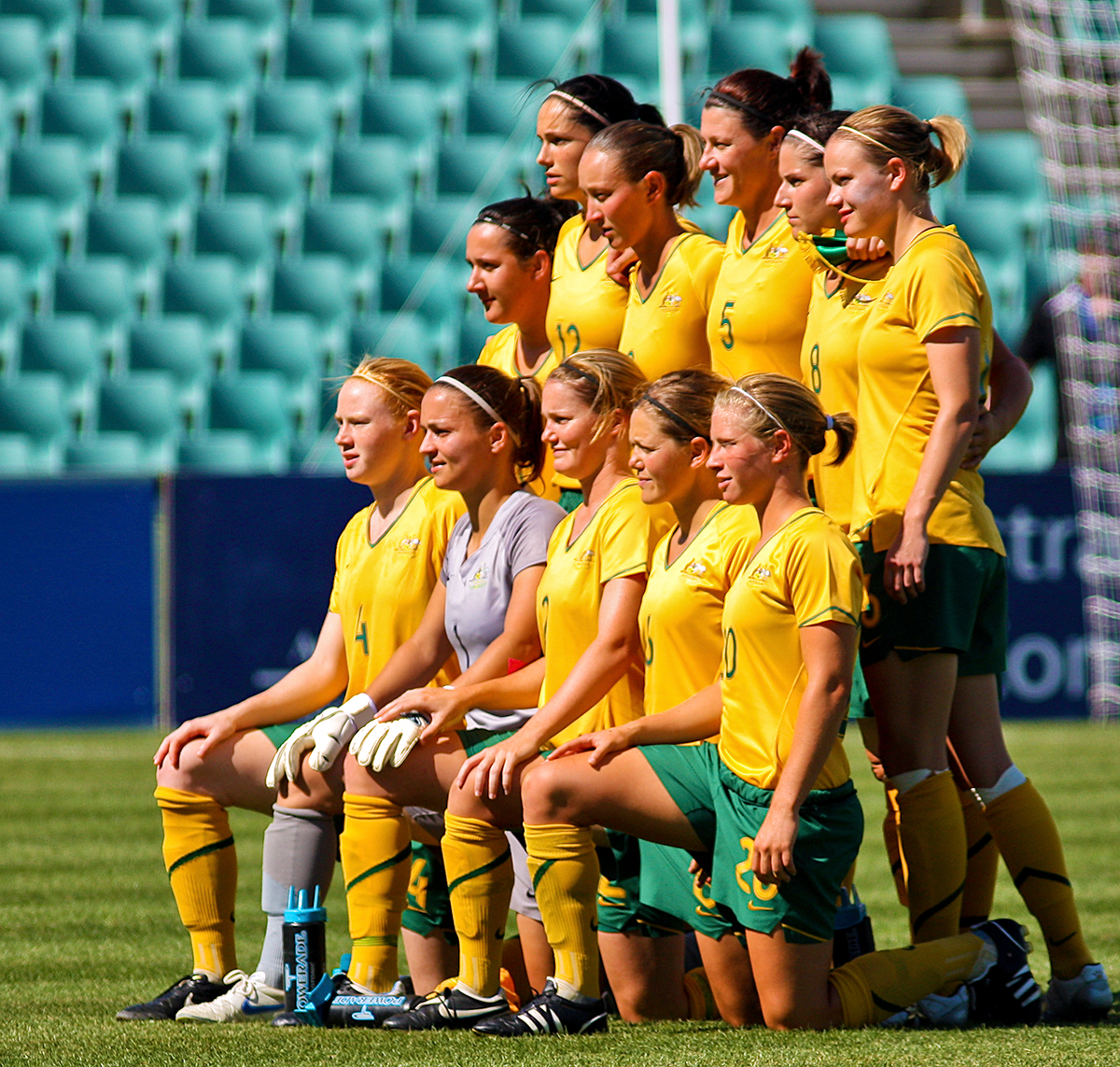 The Australia women's national association football team lining up before a friendly against Italy in Sydney.